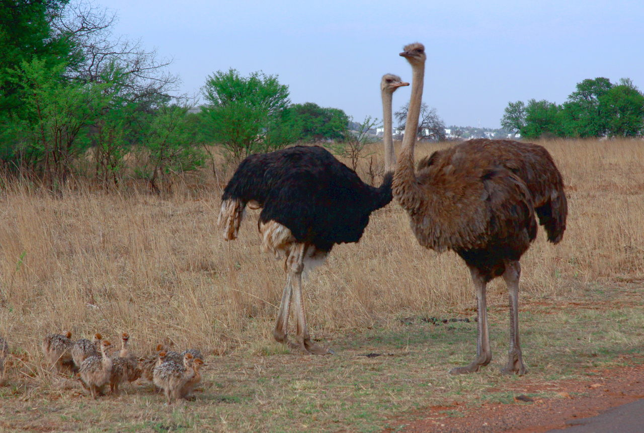 Ostrich or Common Ostrich (Struthio camelus) at Rietflei early morning, male and female with a gaggle of young.